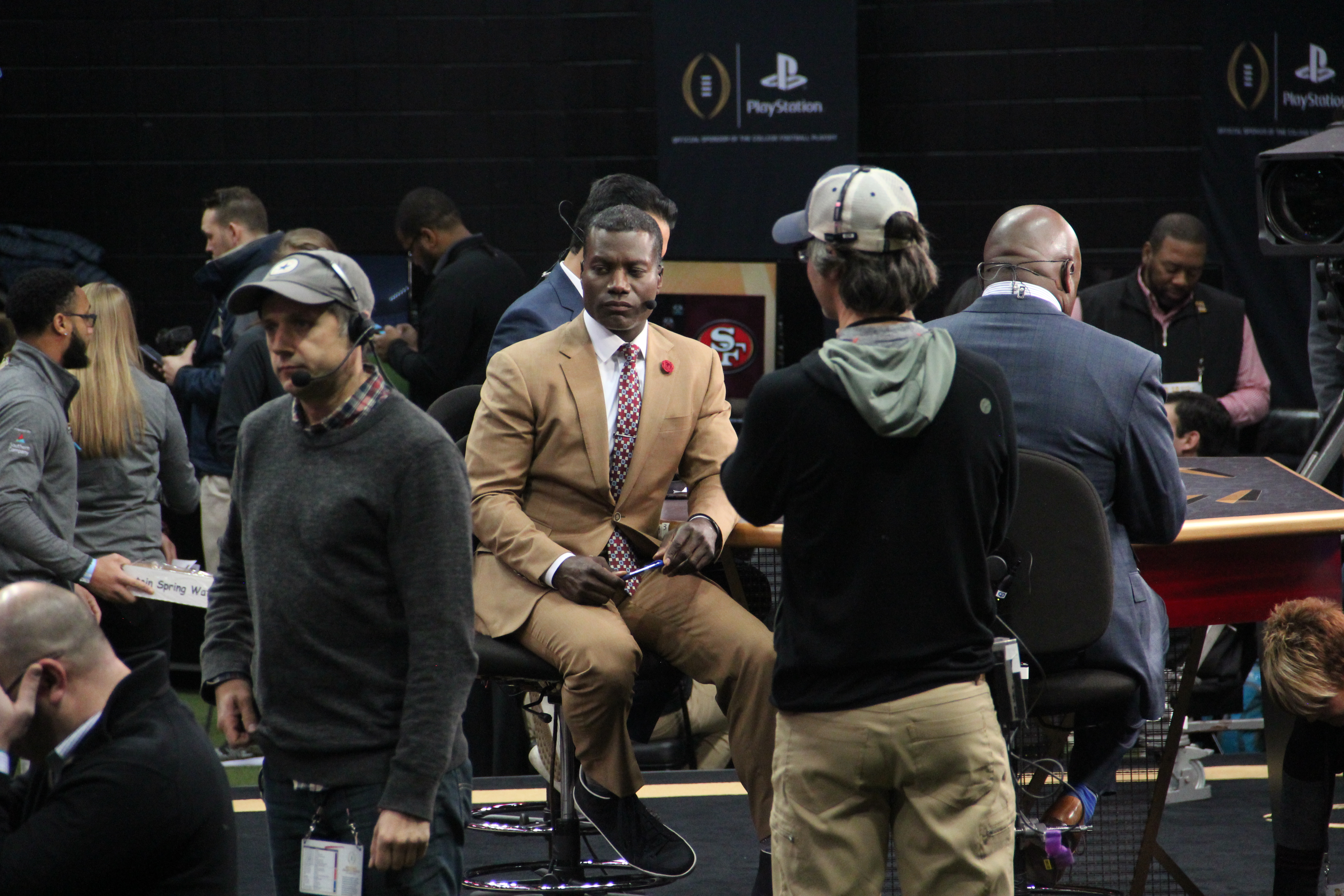 Joey Galloway on the ESPN set at the 2018 College Football Playoff National Championship Media Day